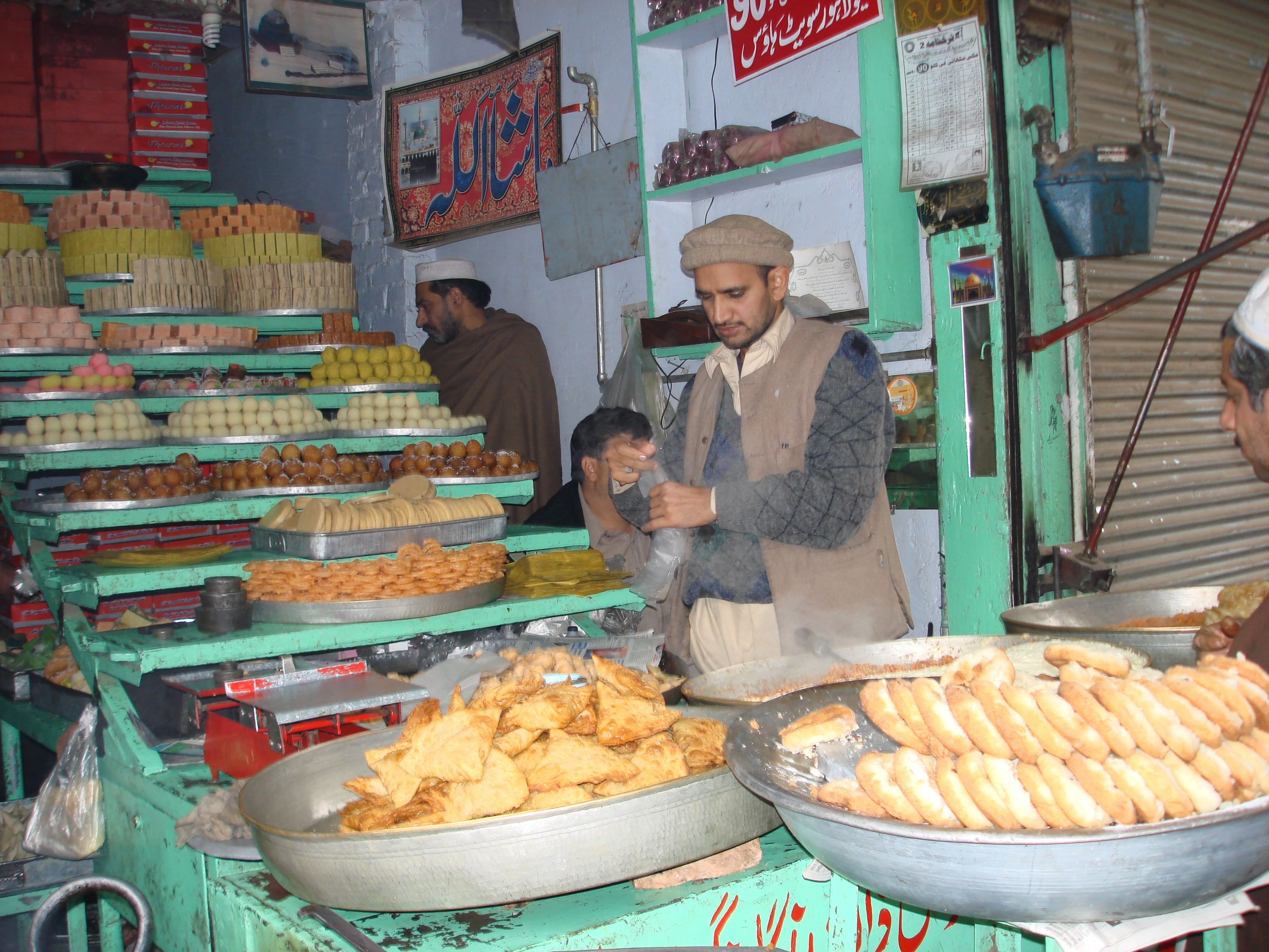 Sweets vendor in the centre of Peshawar, Pakistan